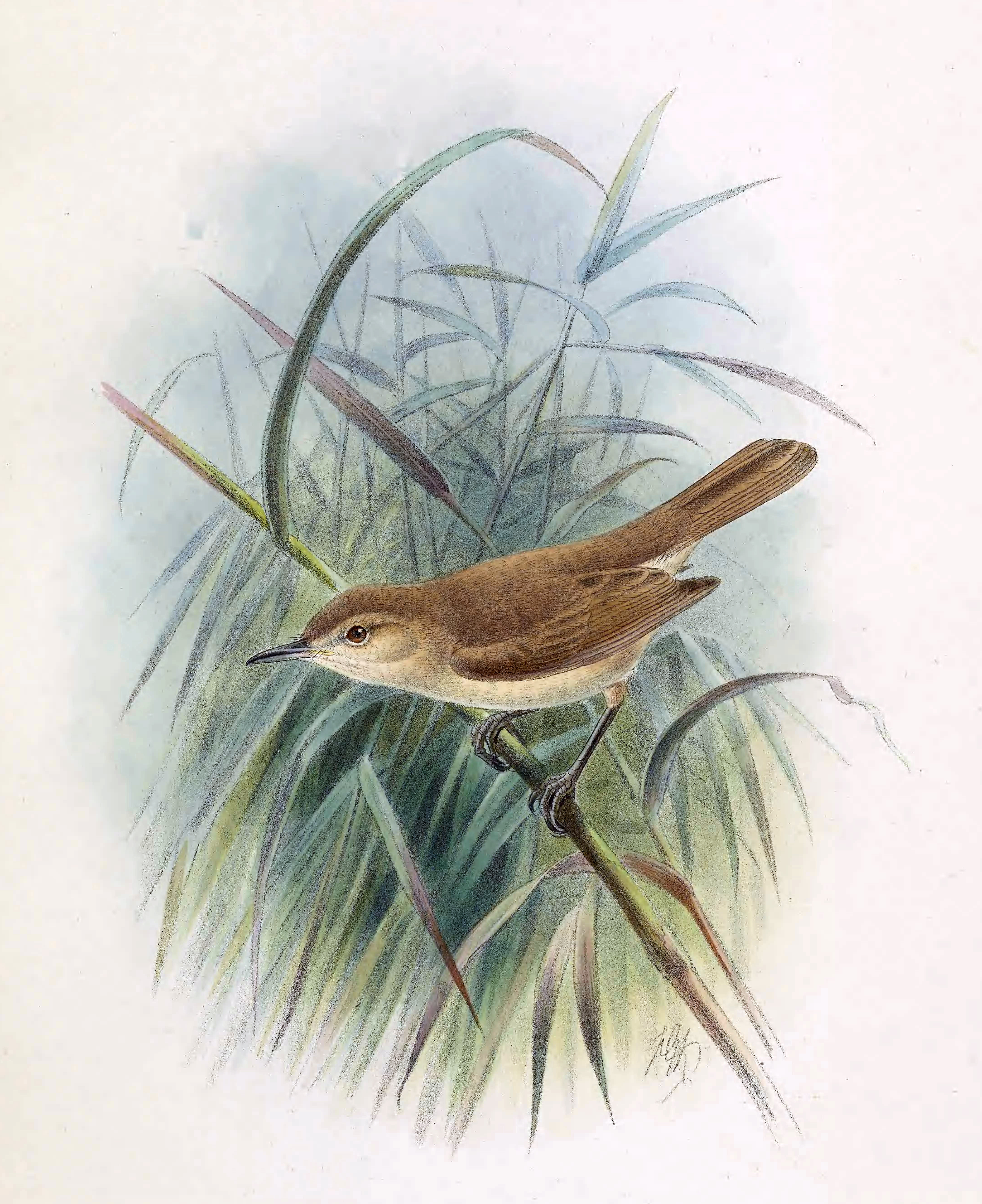 Laysan-Rohrsänger (Acrocephalus familiaris familiaris)